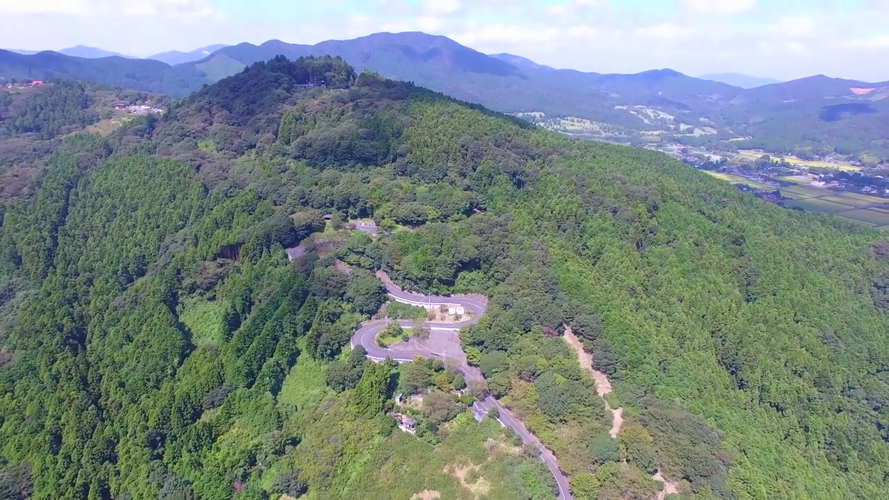 Aerial view of Mount Atago in Kasama, Ibaraki Prefecture, Japan.